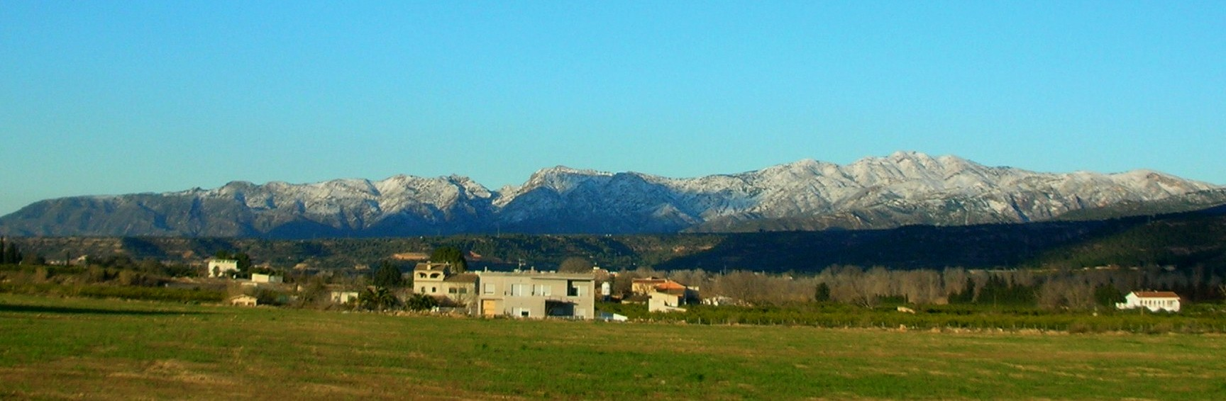 Serra de Cardó. Mountain chain seen from near Tortosa, Catalonia